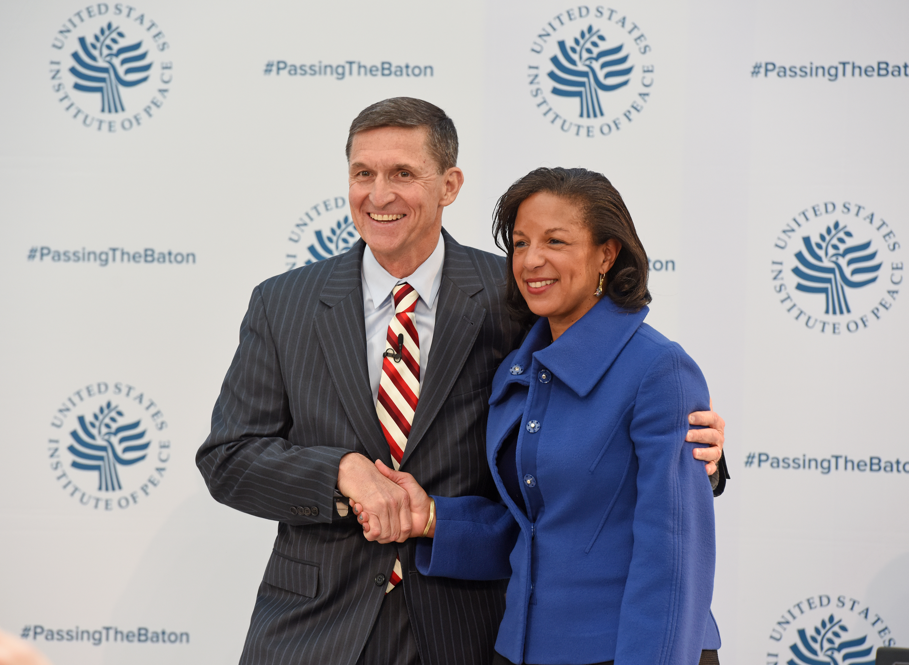 National Security Advisor Susan Rice shakes hands with National Security Advisor Designate Michael Flynn to signify 'passing the baton' from the current national security administration to the incoming administration's team.